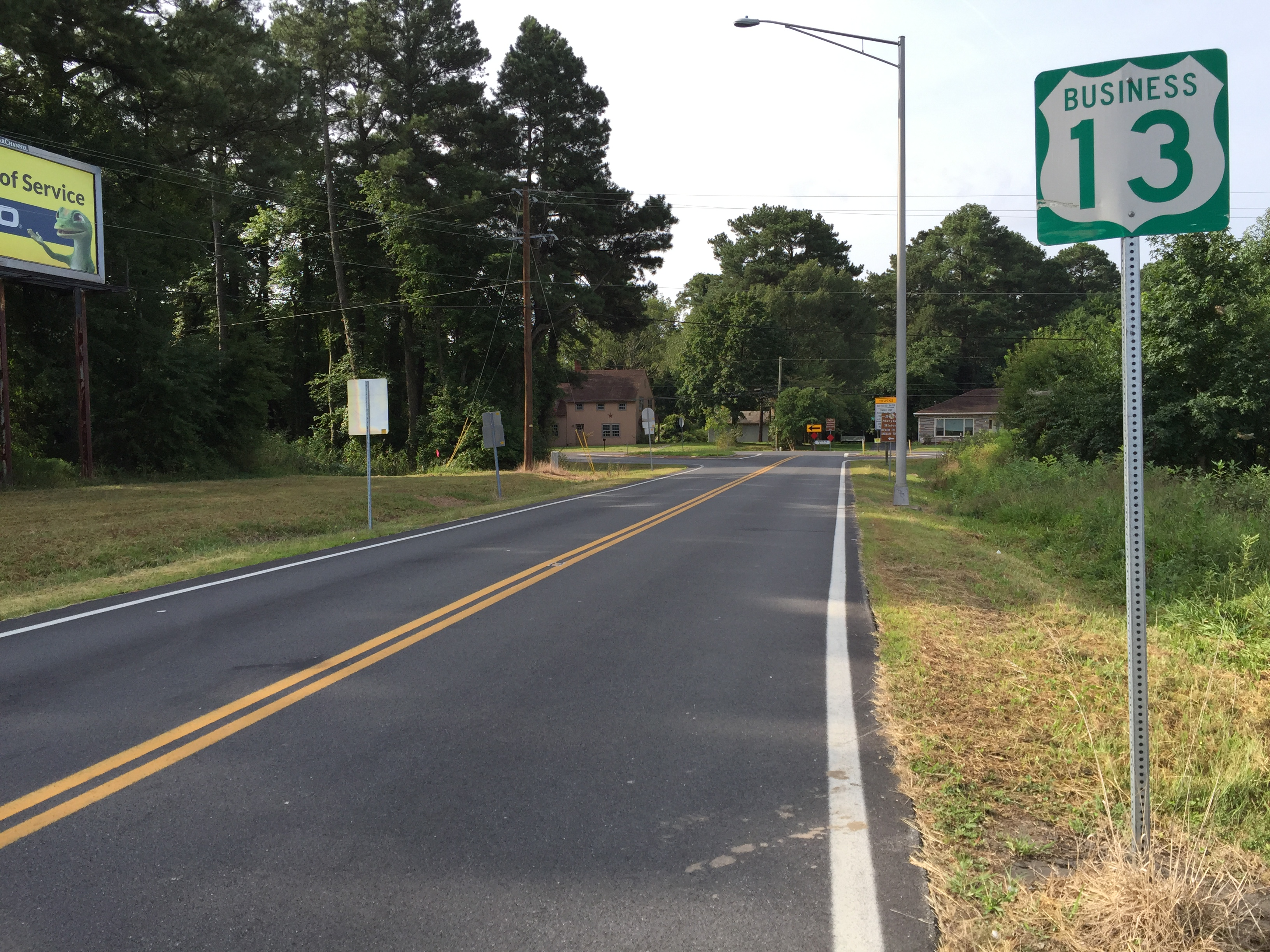 View south along U.S. Route 13 Business (Market Street) at U.S. Route 13 (Ocean Highway) in southern Somerset County, Maryland